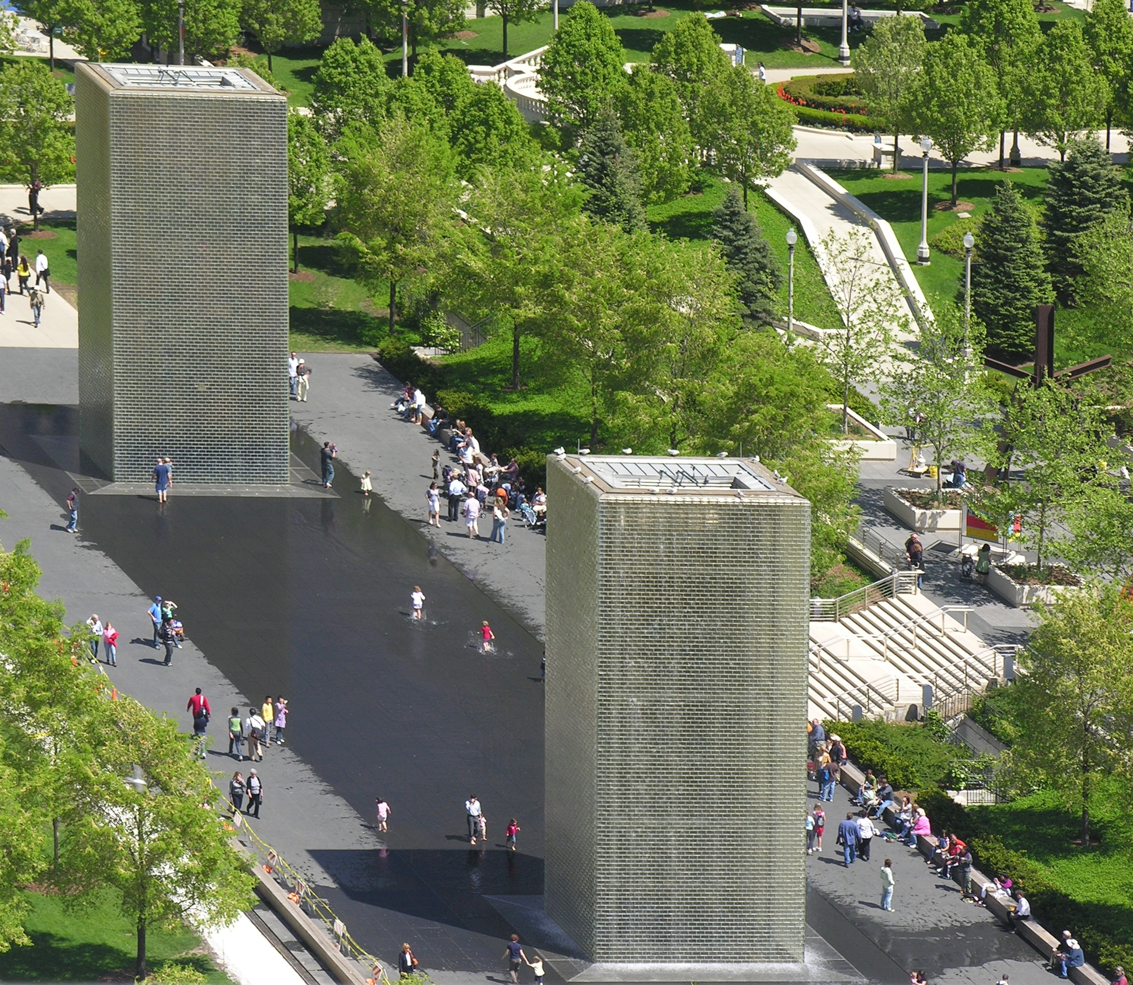 glass brick towers of Crown Fountain, edited with a 6.5 degree rotation 300 X dimension shear and cropping.